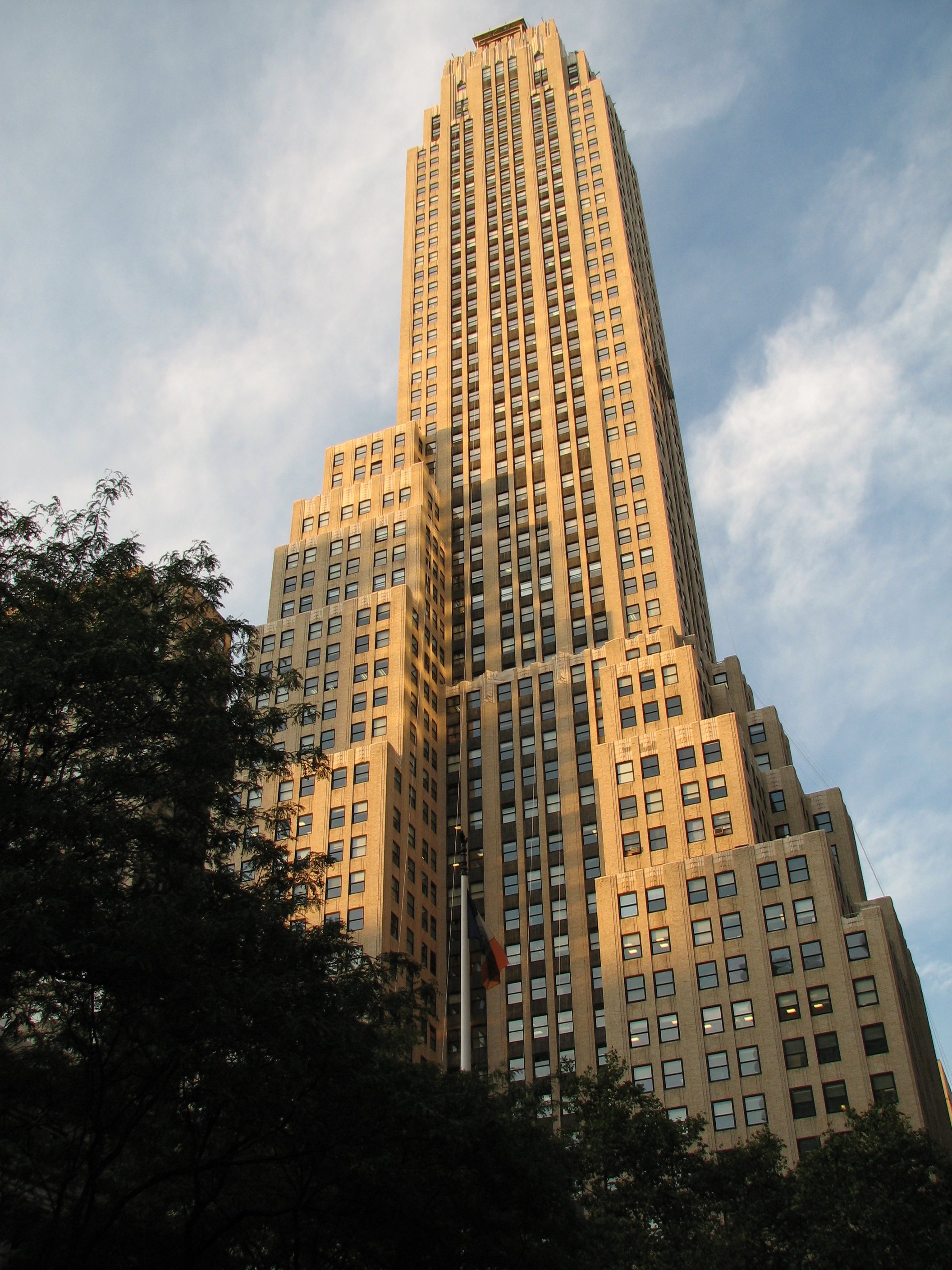 en:500 Fifth Avenue. Northwest corner of 42nd and 5th Ave, right beside NYPL.